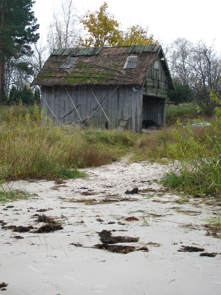 fisherman's shack in Lapmezciems